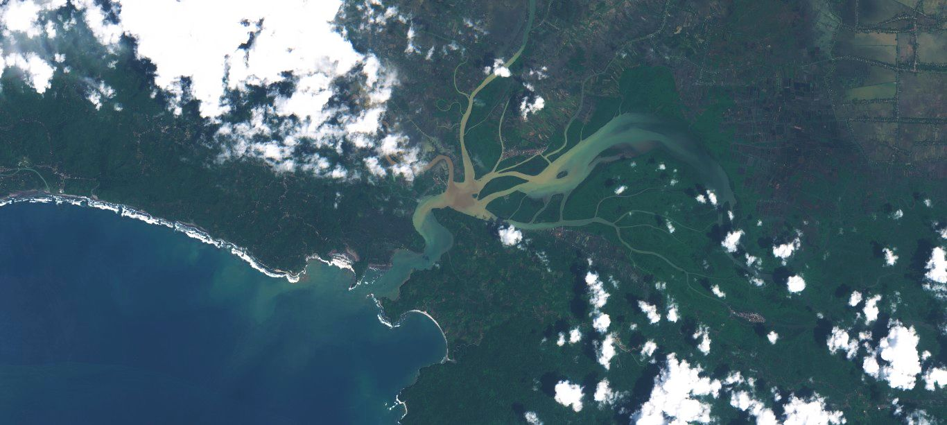 Sentinel-2 image of Segara Anakan on 2017-01-12. Image was processed in IrfanView.